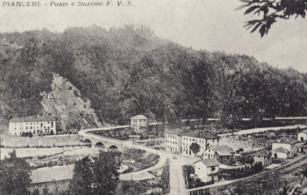 Pianceri, postcard